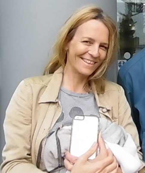 Georgia Byng in 2016